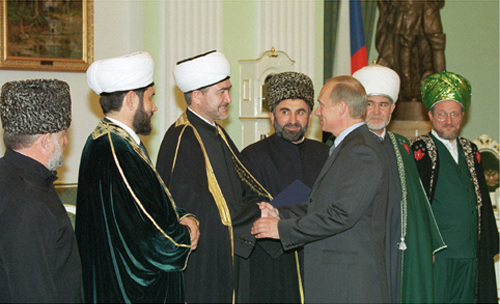 THE KREMLIN, MOSCOW. Meeting with leaders of Muslim Spiritual Directorates of Russia. President Putin greeting Mufti Sheikh Ravil Gainutdin, head of the Council of Muftis of Russia.